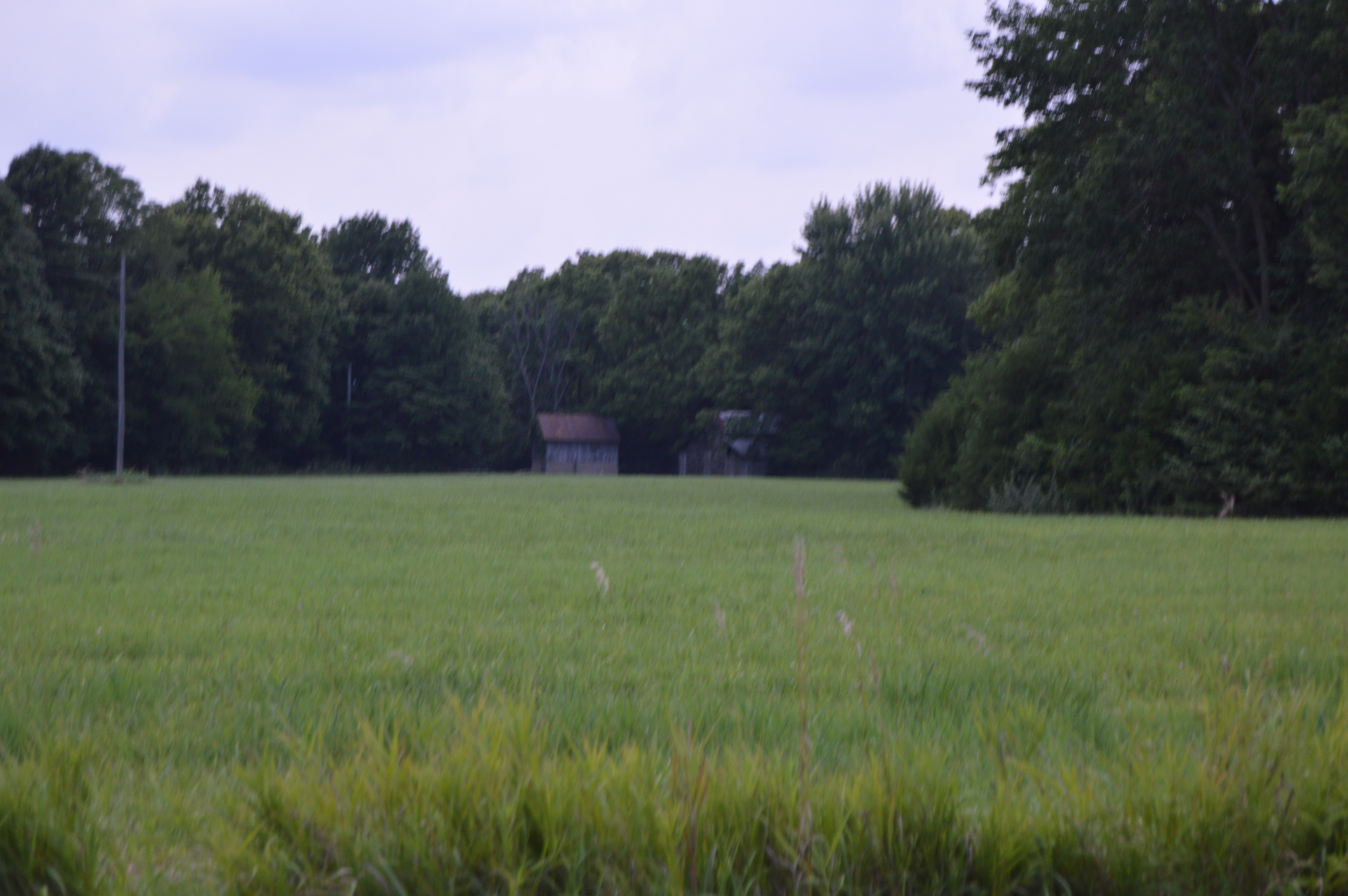 Distant view of buildings at the Cambre Farm, seen looking northwest from Road 830 East southwest of Niota in Appanoose Township, Hancock County, Illinois, United States. The farm complex is listed on the National Register of Historic Places.